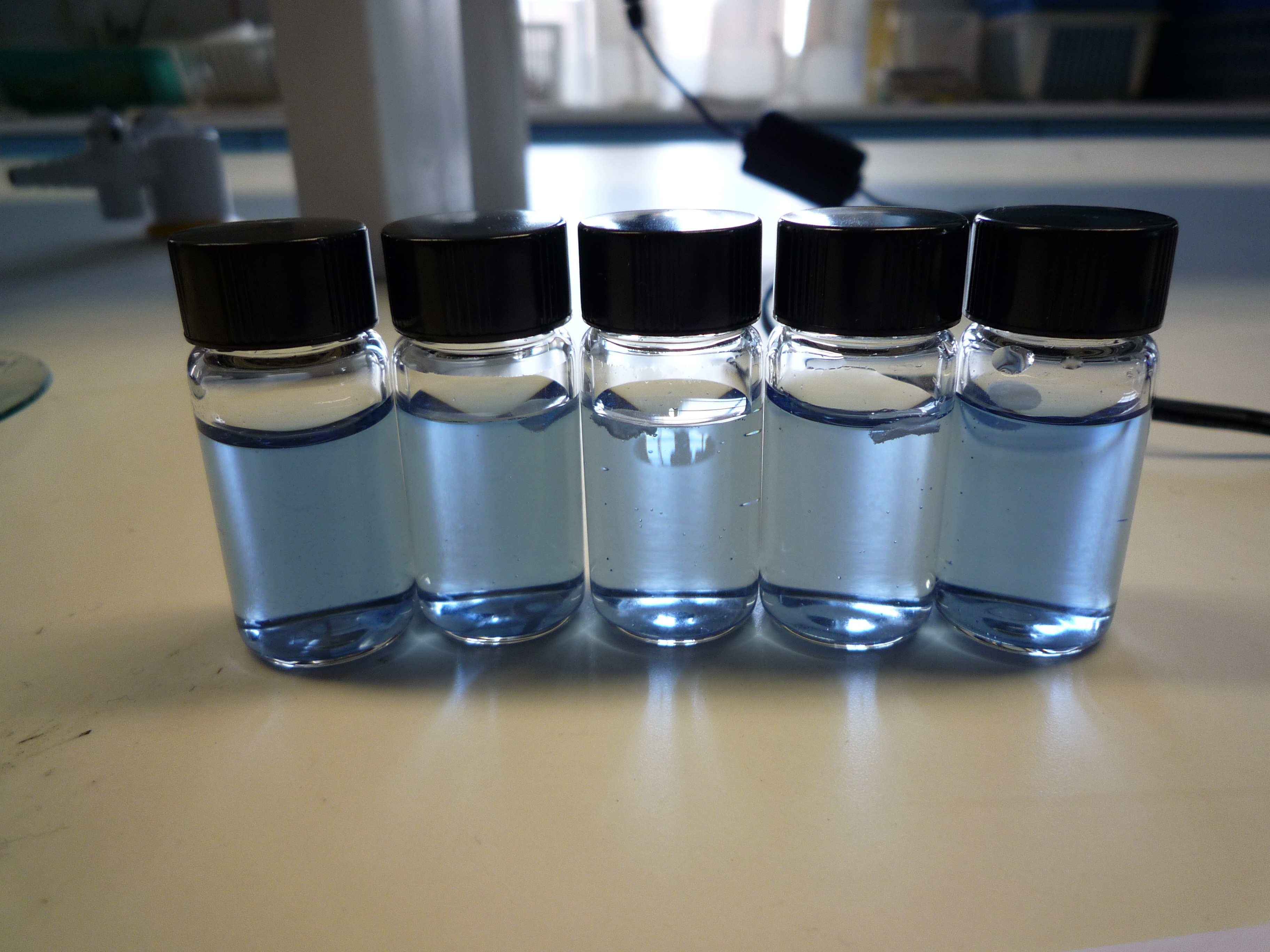 Vials containing dilute solution of potassium iodide, iodine and starch. The blue color seen originated from the iodine-starch complex that is supramolecular in nature. The vials were illuminated by sunlight and fluorescent tube.